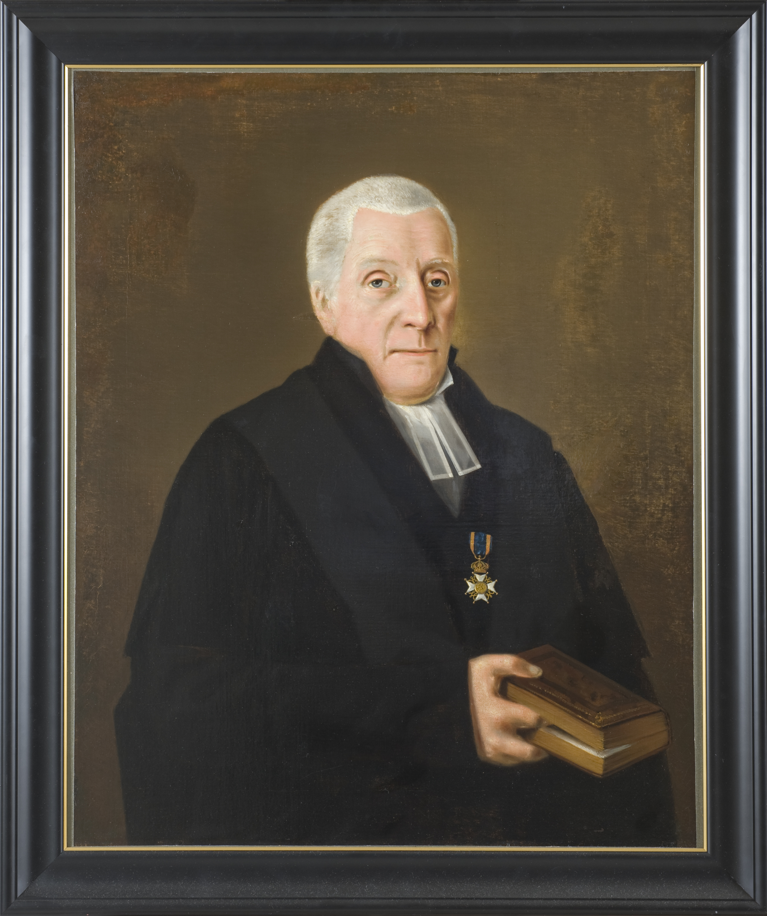 Portrait painting of Dutch pastor ("predikant") and author Jan Scharp (1756-1828) by Jan Willem Caspari (1779-1822)